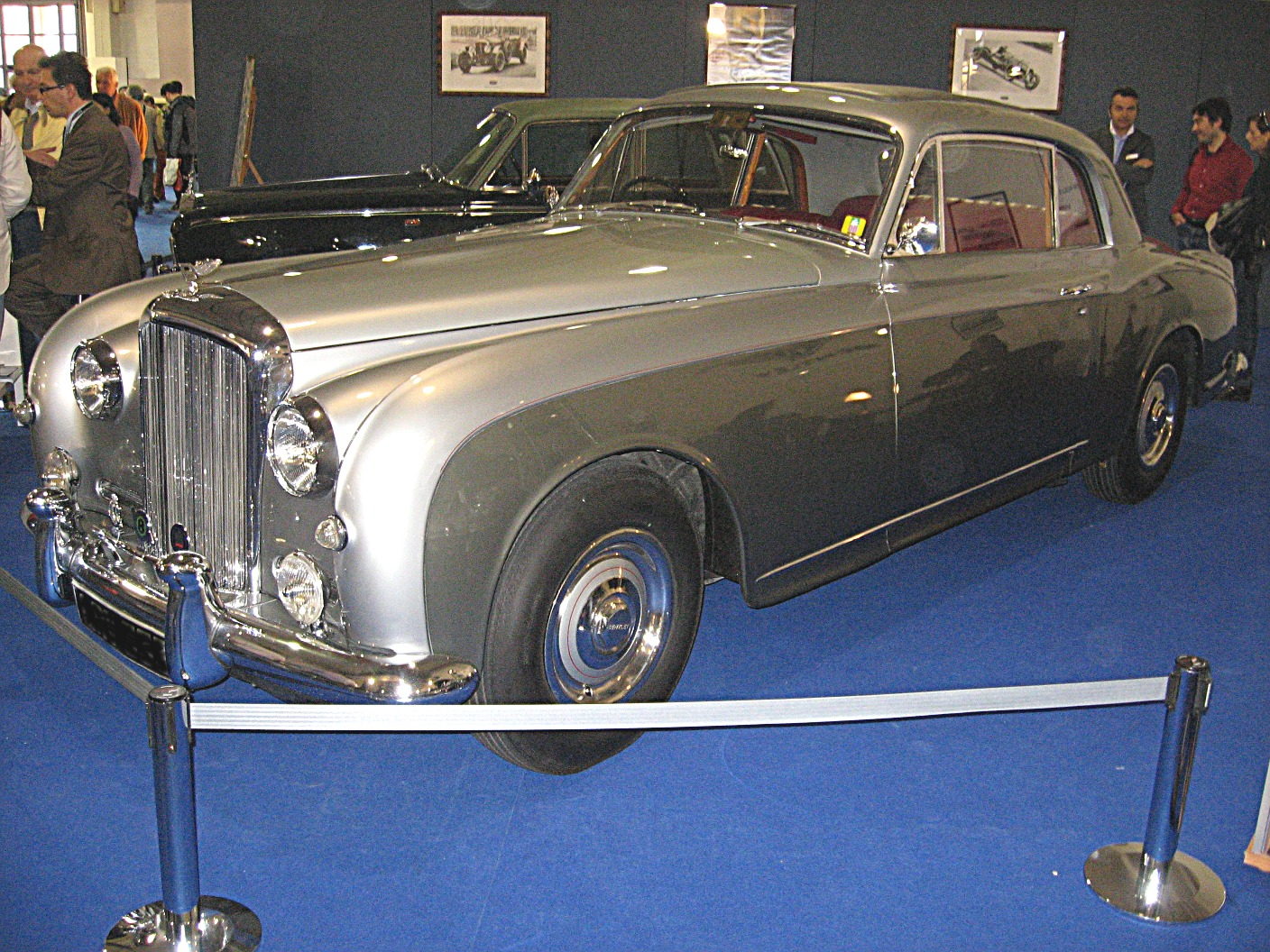 Subject: Bentley S1 Continental Date:October 26th, 2008 Event: Auto e Moto d'Epoca 2008 Place/Country: Padova, Italy I release all rights in the public domain.